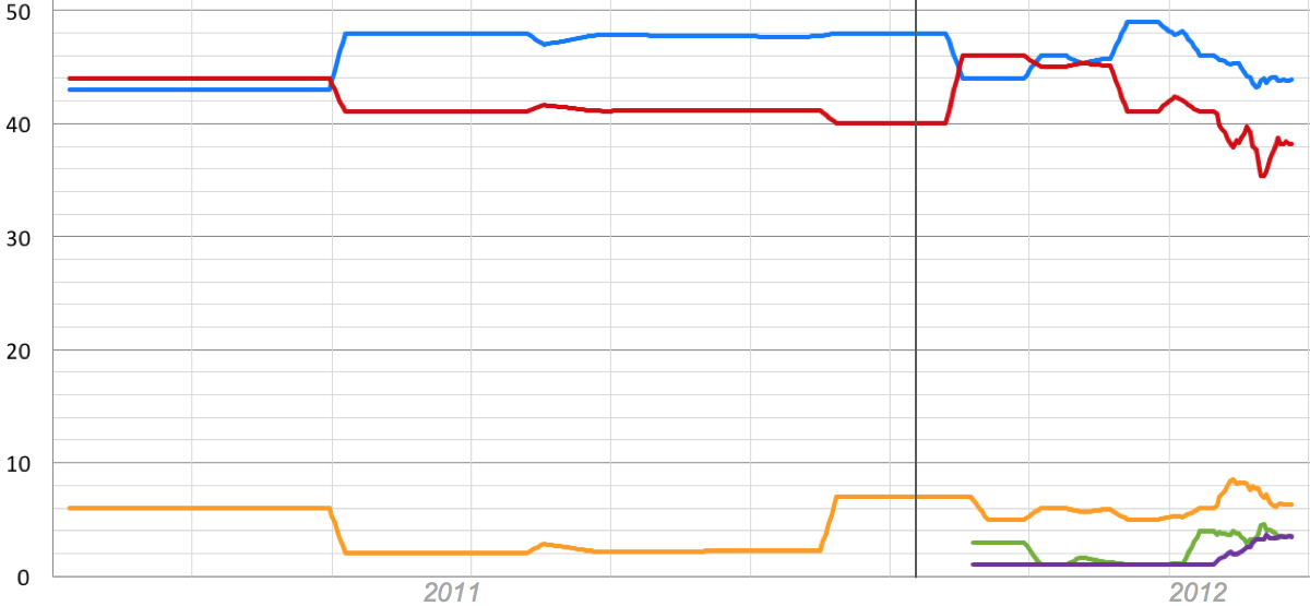 5-way London Mayoral polling graph